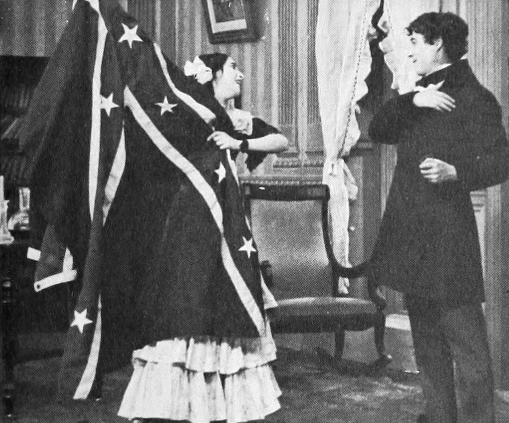 Still from The House with Closed Sutters (1910 film)